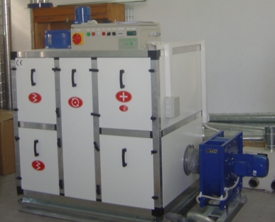 Atmospheric air desiccant dryer